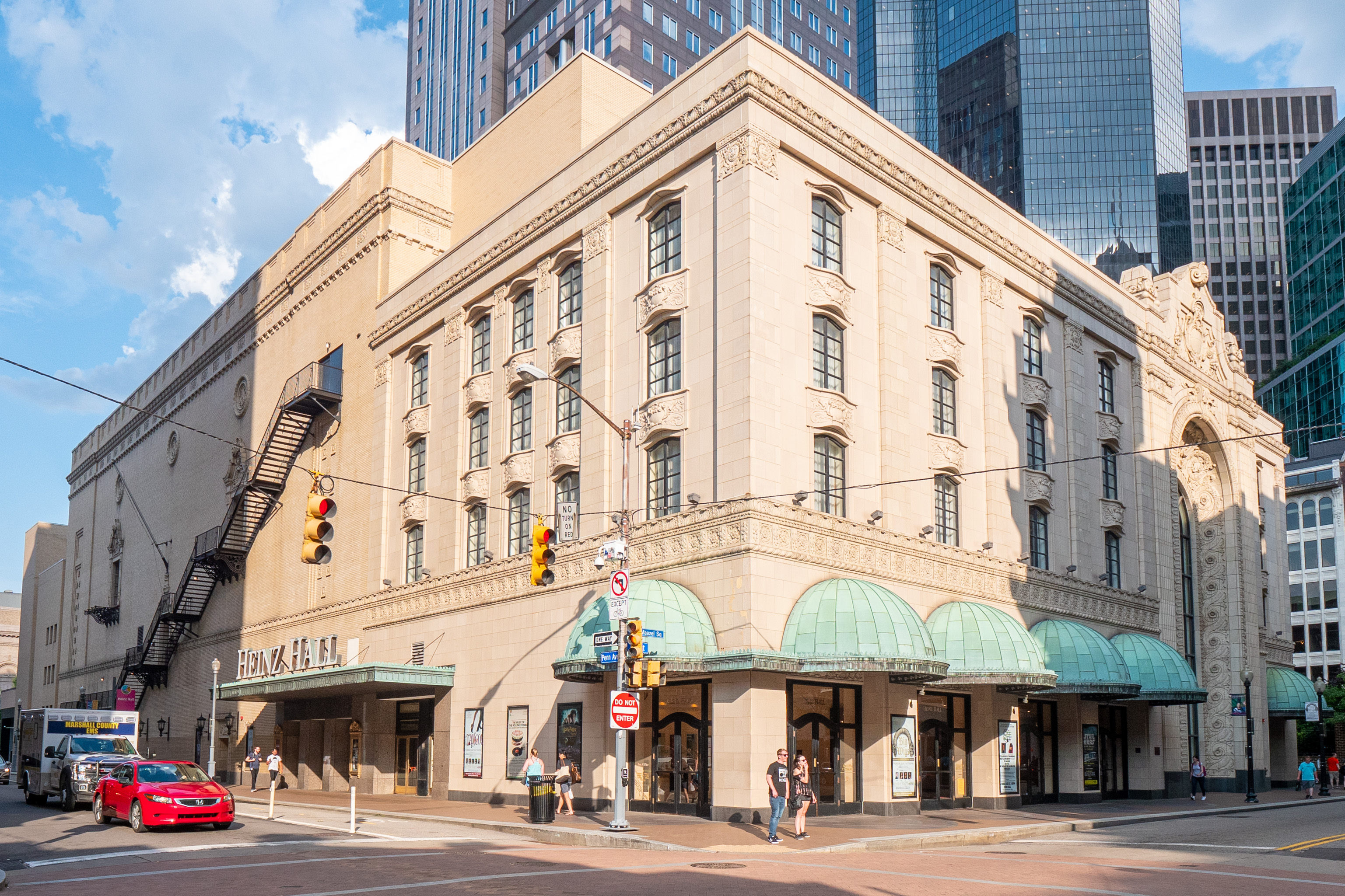 Heinz Hall located in Pittsburgh, Pennsylvania which serves as the home to the Pittsburgh Symphony Orchestra.